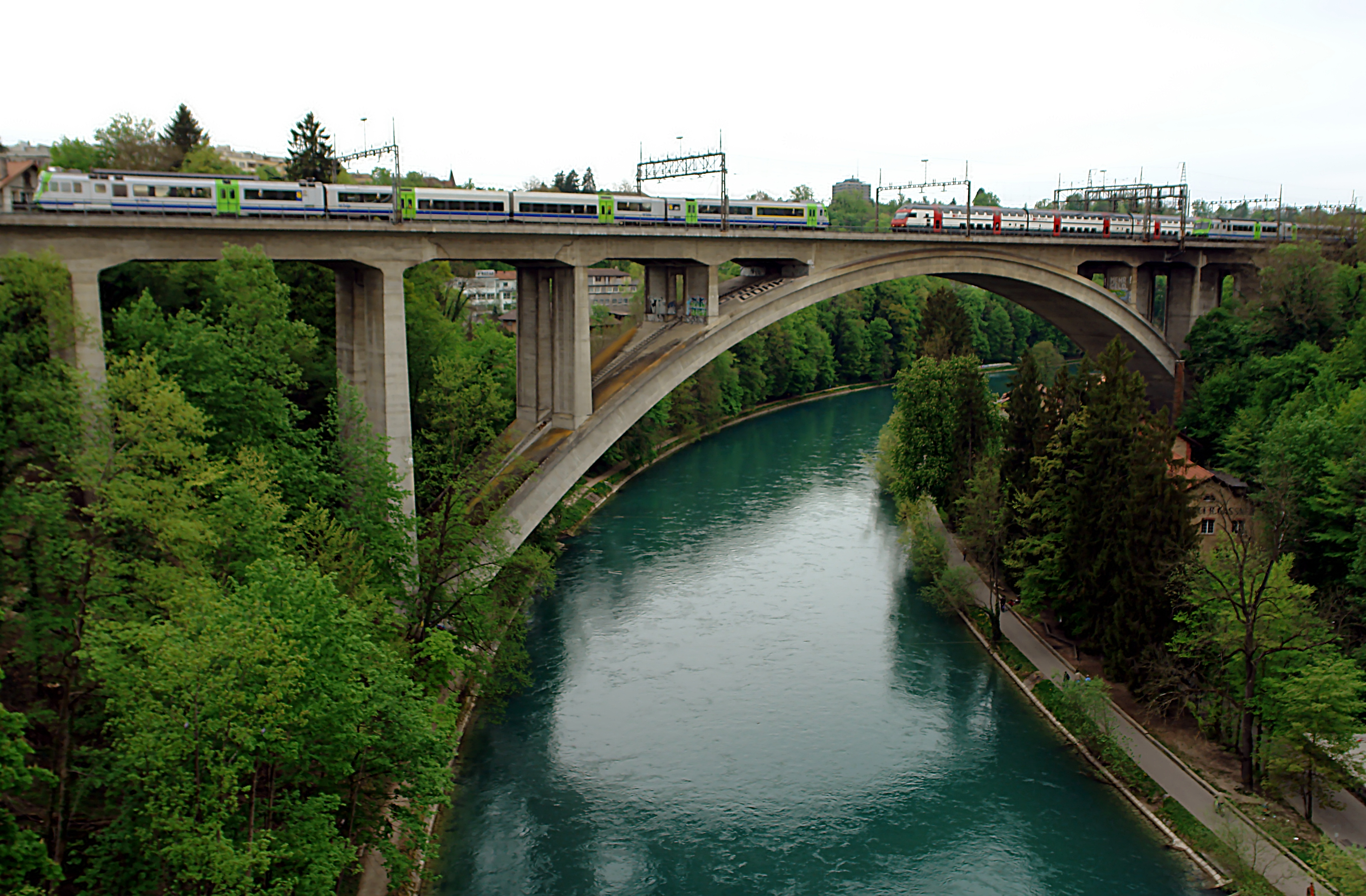 Railway bridge over the Aar, Berne, Switzerland.